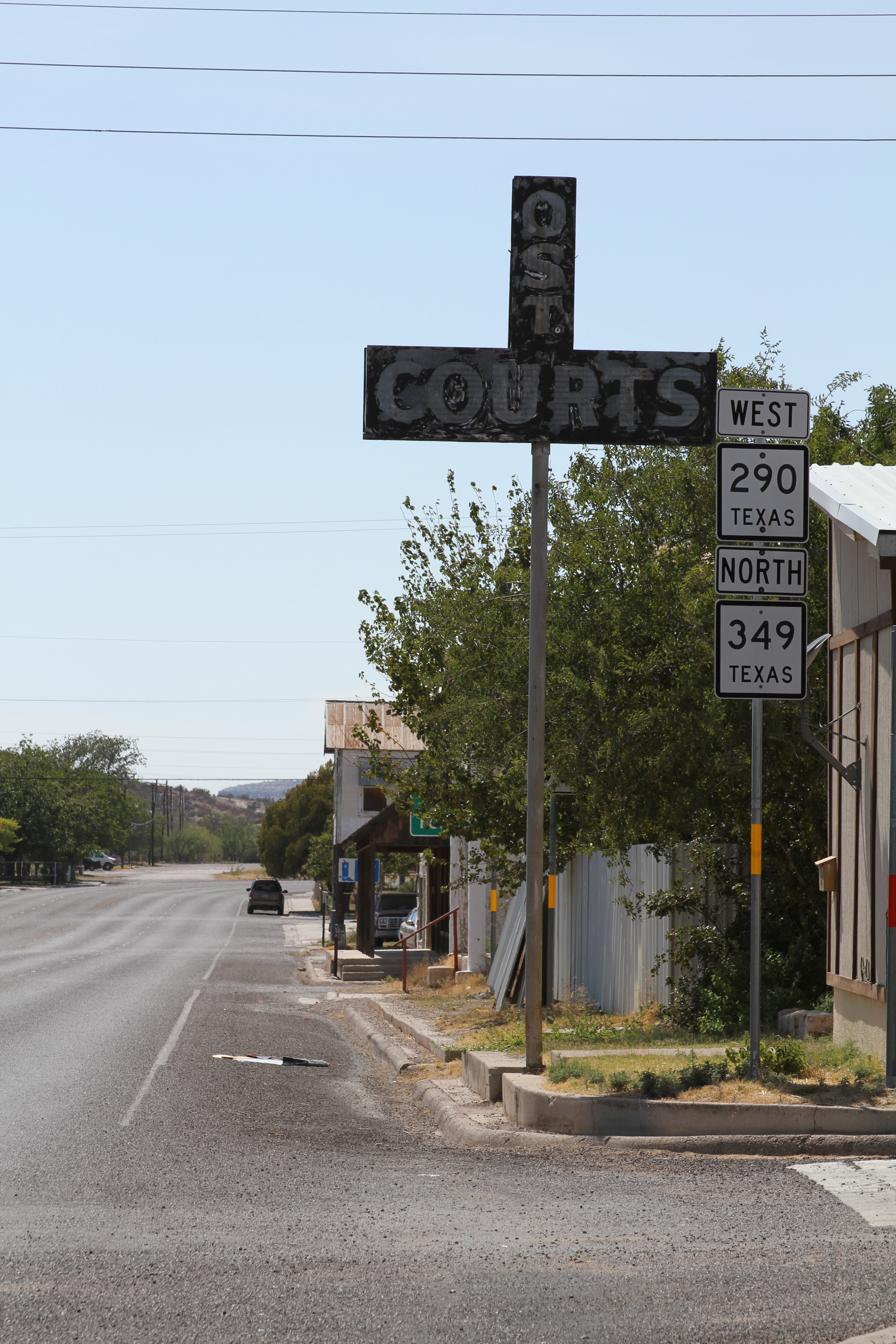 This is a photograph of the main street of Sheffield, Texas, which was old U. S. Highway 290 and part of the Old Spanish Trail Highway. The OST Courts was a small local motel that operated in the community for a number of years in the 1950s and 60s.